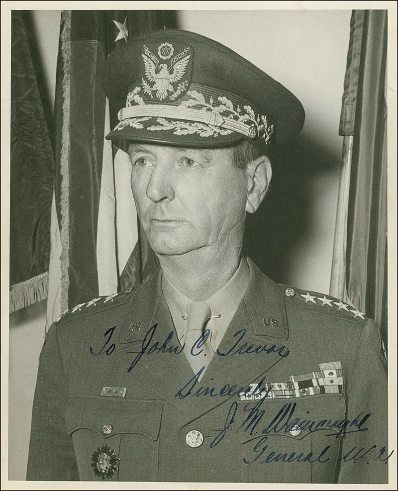 Jonathan Mayhew "Skinny" Wainwright IV (August 23, 1883 – September 2, 1953) was a career American army officer and the commander of Allied forces in the Philippines at the time of their surrender to the Empire of Japan during World War II. Wainwright is a recipient of the Medal of Honor.